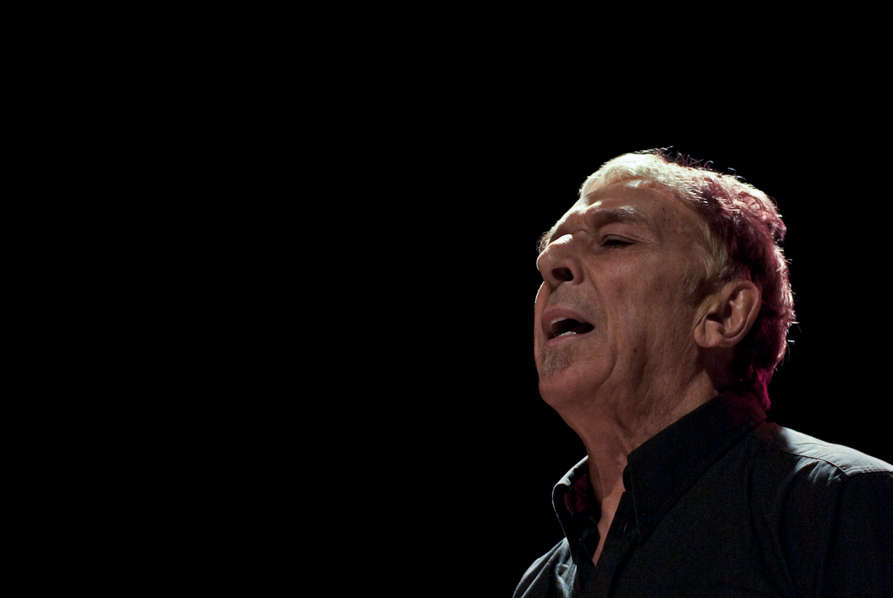 John Cale at Le Chabada, Angers, France, 14 October 2011